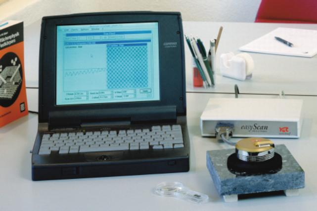 Portable STM by Nanosurf